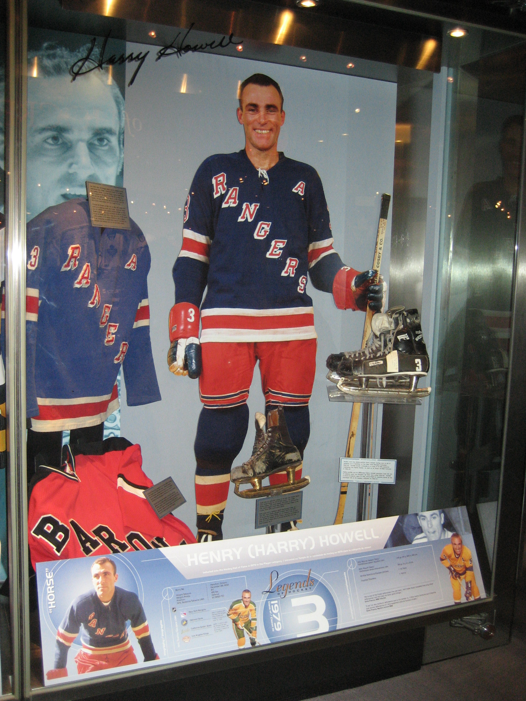 Harry Howell, Hockey Hall of Fame, Toronto, Ontario, Canada.